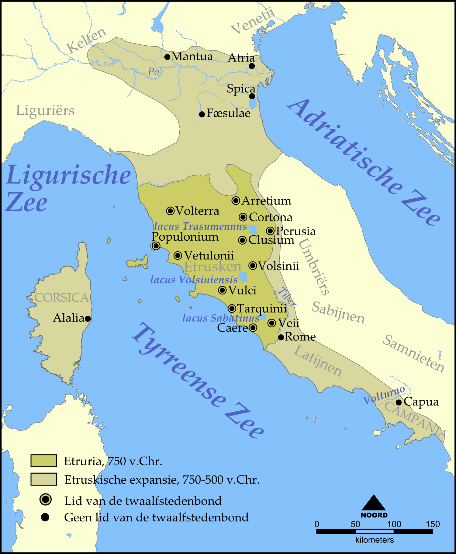 Dutch version of a map showing the extent of Etruria and the Etruscan civilization. The map includes the 12 cities of the Etruscan League and notable cities founded by the Etruscans.